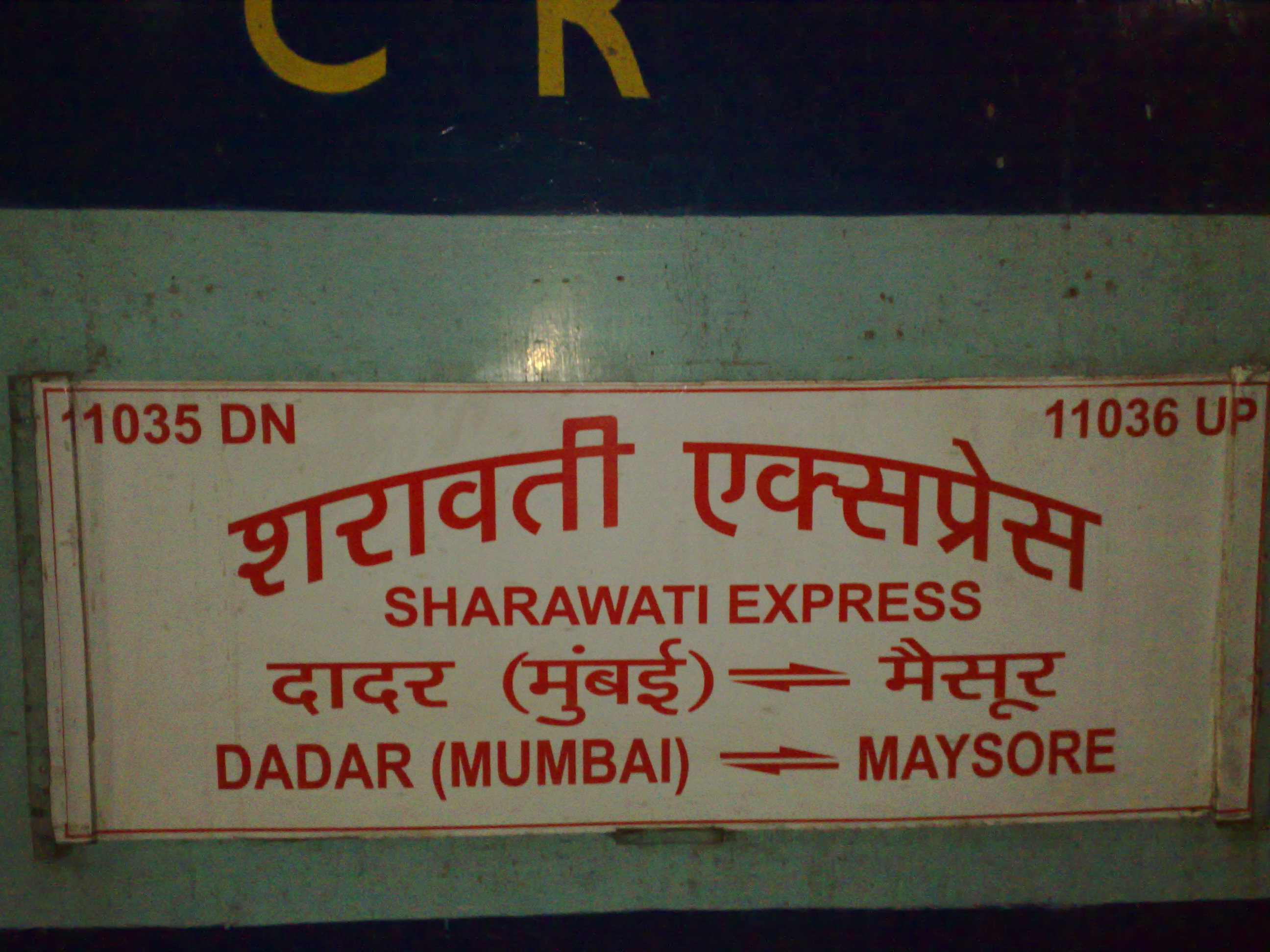 11036 Sharawati Express